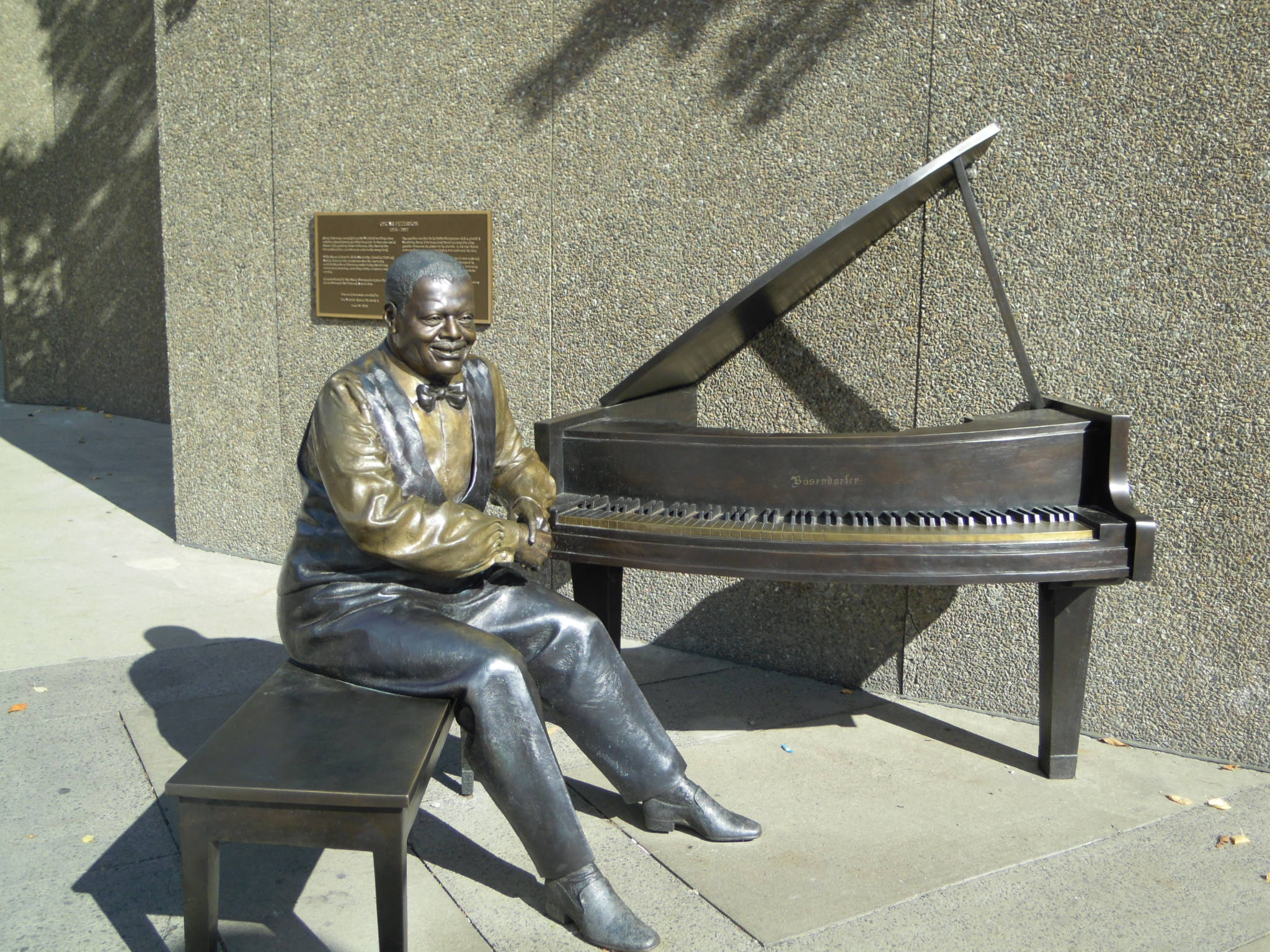 Statue of pianist Oscar Peterson on Elgin Street at the National Arts Centre, Ottawa, Canada.